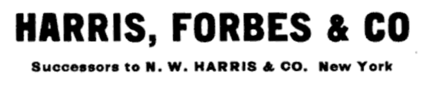 Logo of Harris, Forbes & Co. an investment banking firm based in Chicago